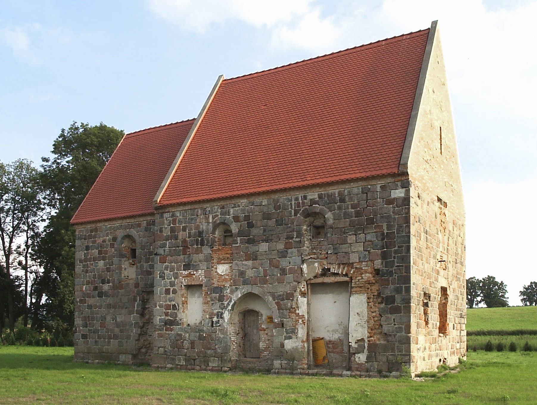 Chapel Knights Templar in Rurka, Poland